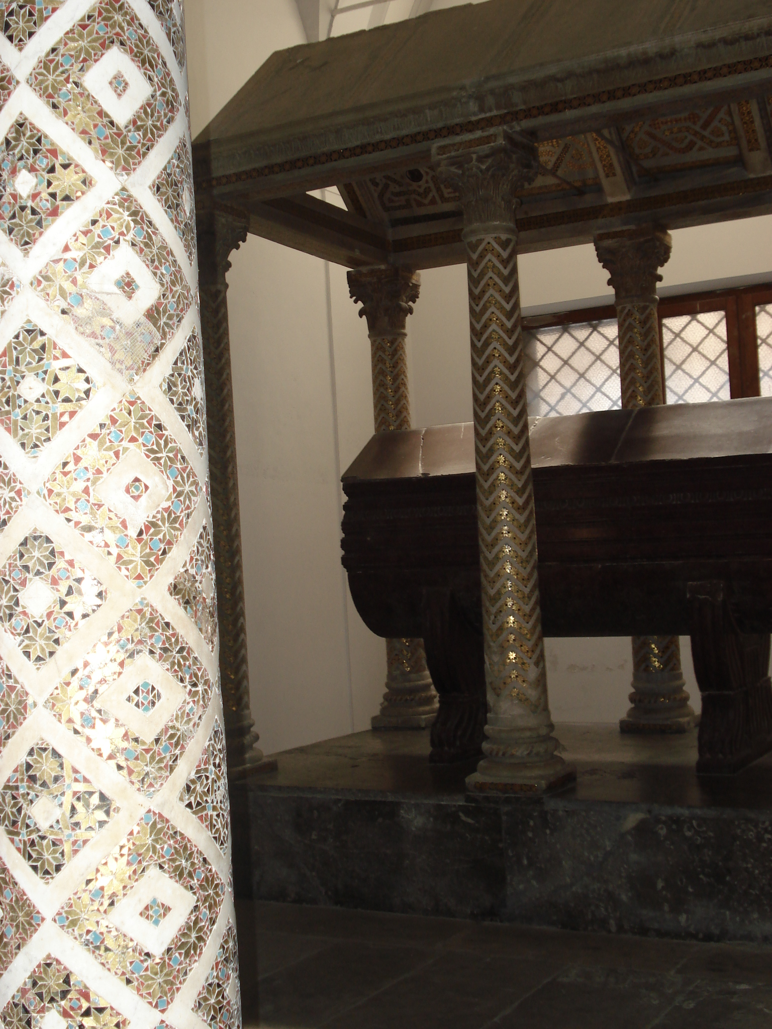 Porphyry Sarcophagus of emperor Constance of Sicily (1154-1198), in the Cathedral of Palermo (Sicily). Picture by Giovanni Dall'Orto, September 28 2006.